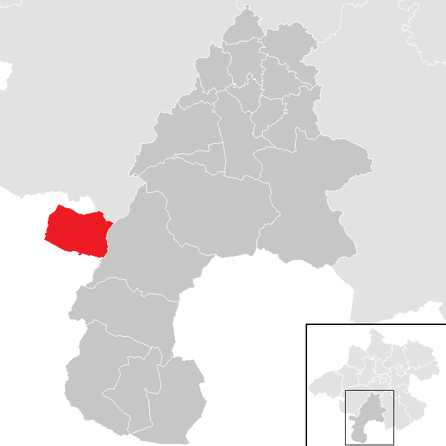 district Gmunden